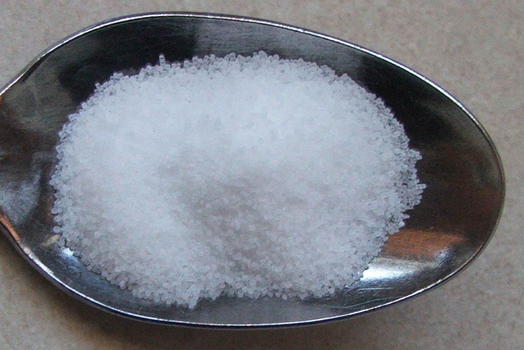 Sodium chloride